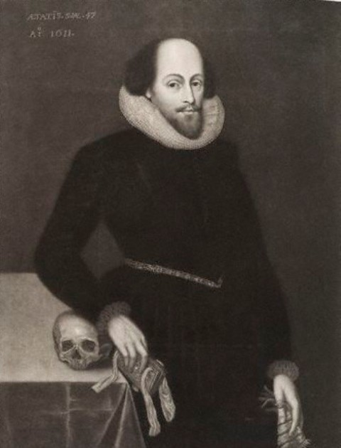 meszzotint of "Shakespeare" Portrait